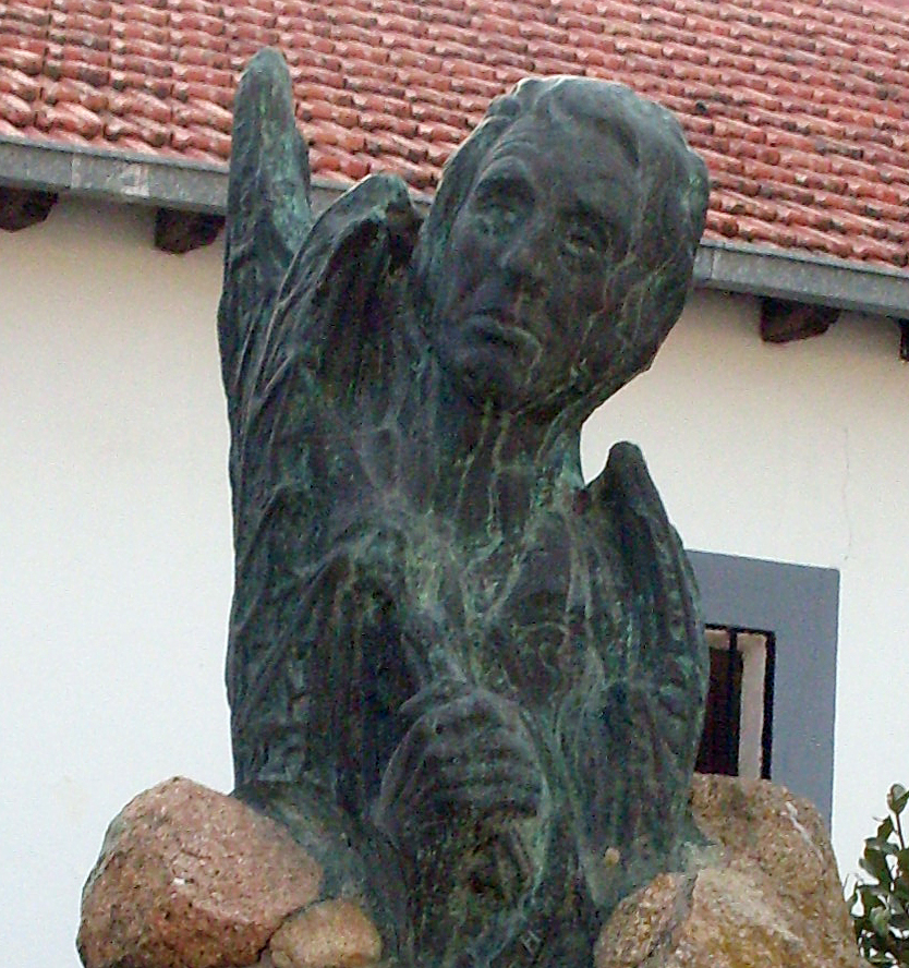 Statue Casimiro Gómez Ortega, spanish botanist, scientist born in Añover de Tajo